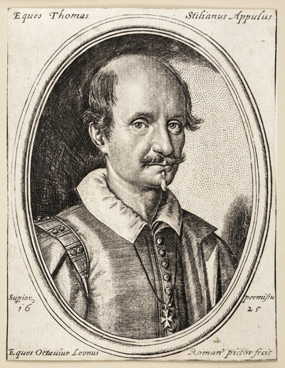 Italian poet and writer Tommaso Stigliani